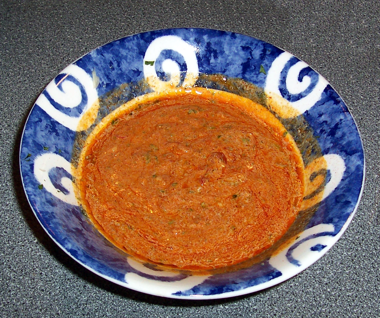 A Marinade for Chicken Tikka